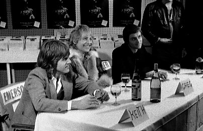 Records on wheels, Toronto, Feb. 2 or 3, 1978